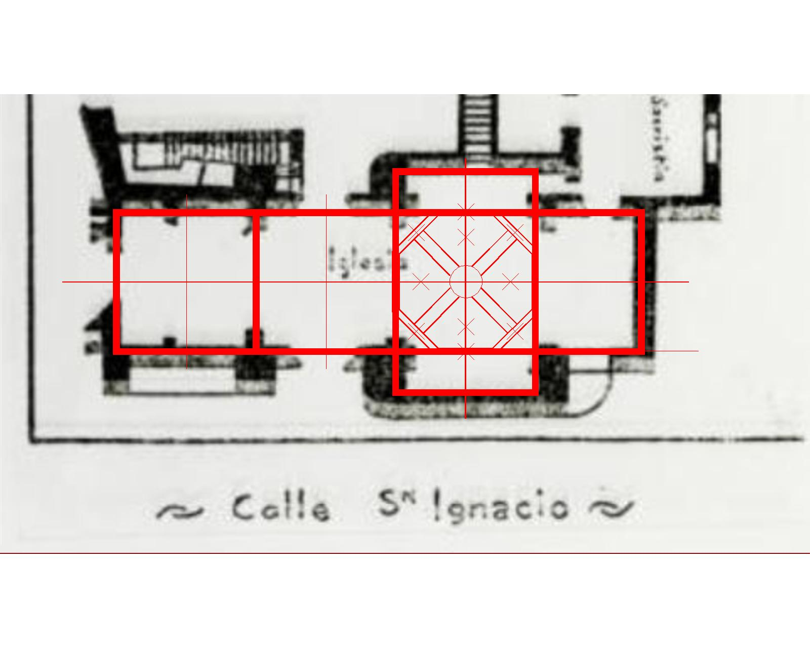 Iglesia de San Francisco de Paula_Structure-Bays, Havana, Cuba.